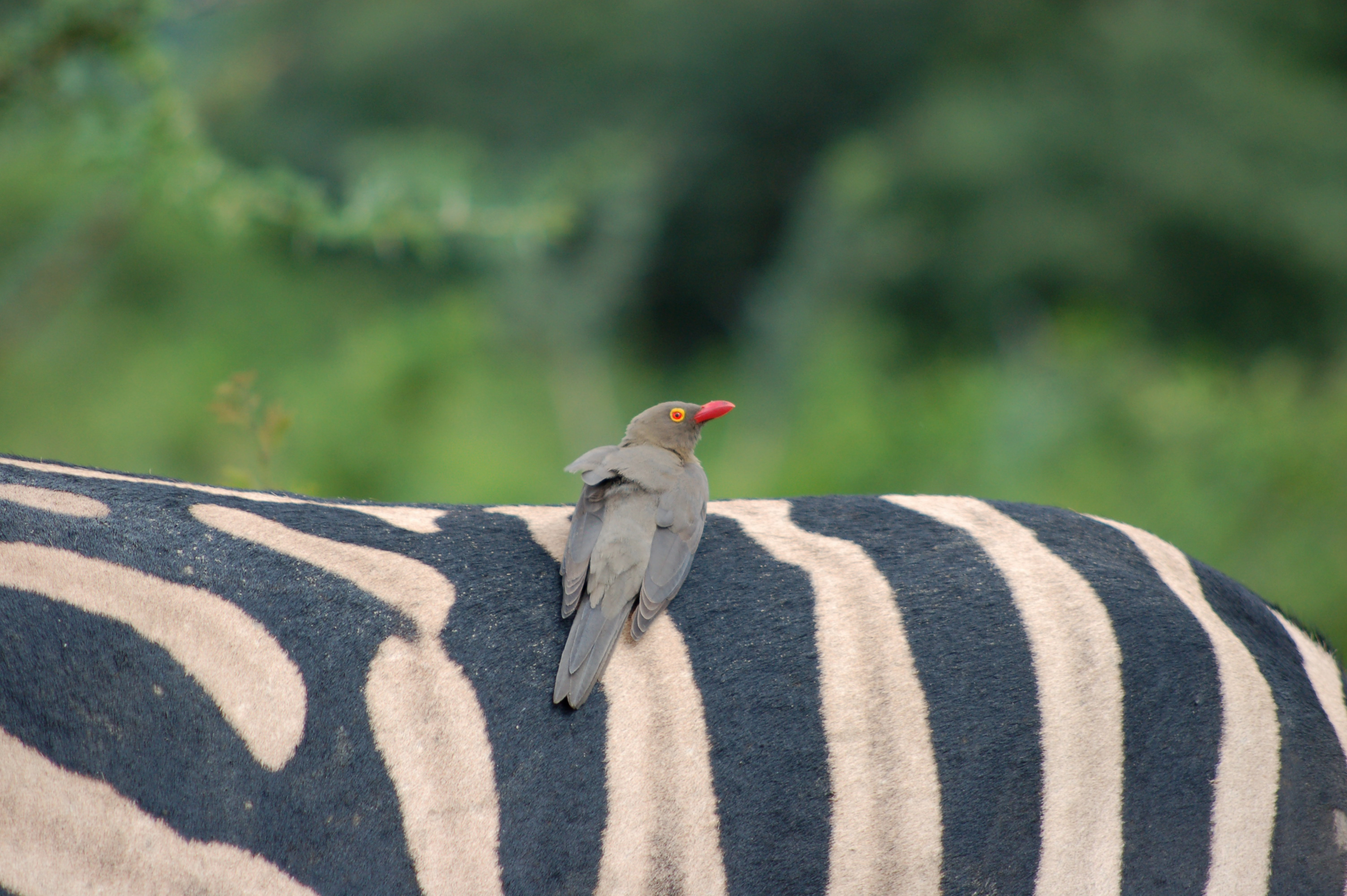 An adult Red-billed Oxpecker on the back of a Zebra at Hluhluwe-Umfolozi Game Reserve, South Africa.